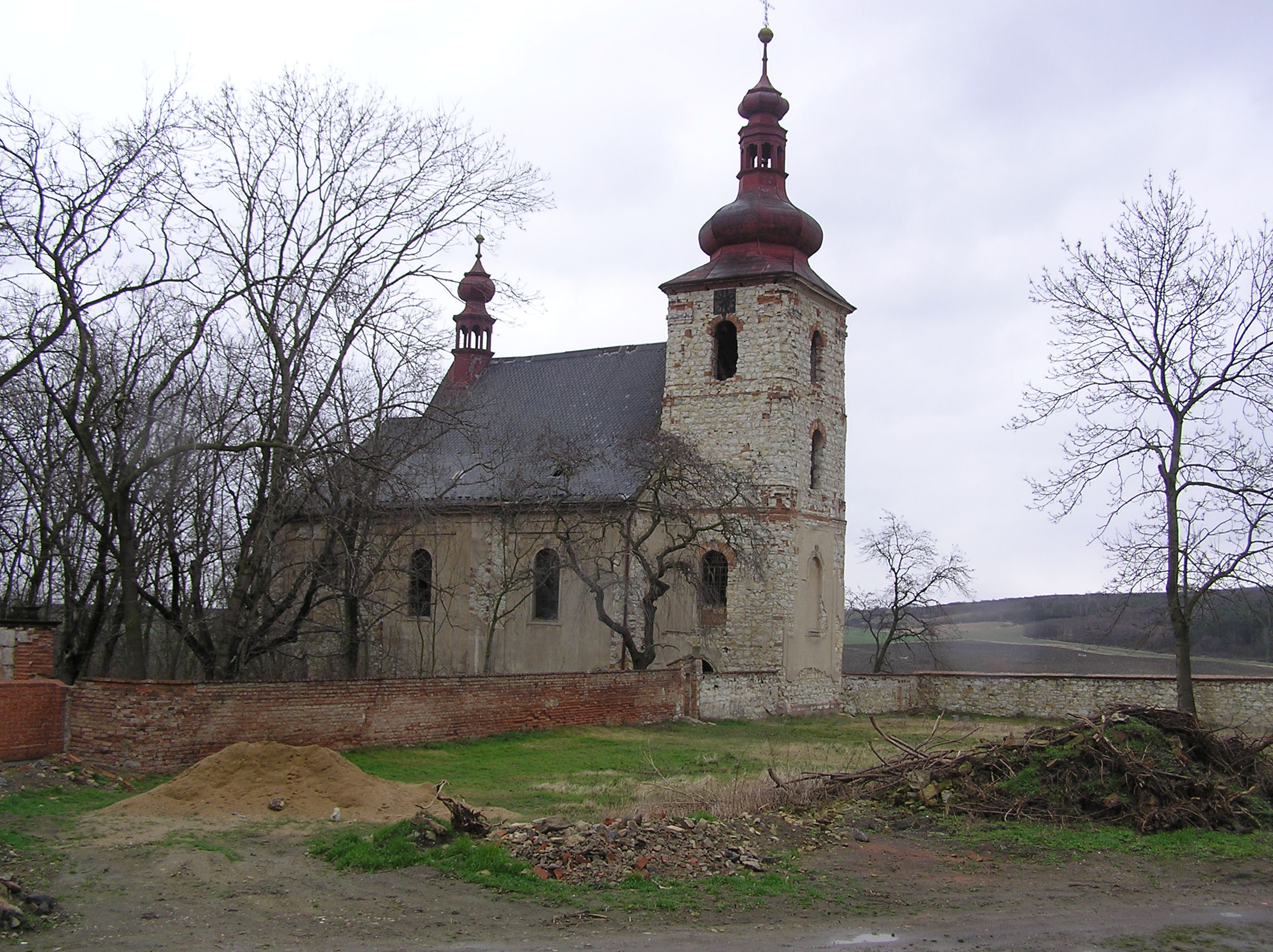 Church of St. Bartholomew in Žabokliky